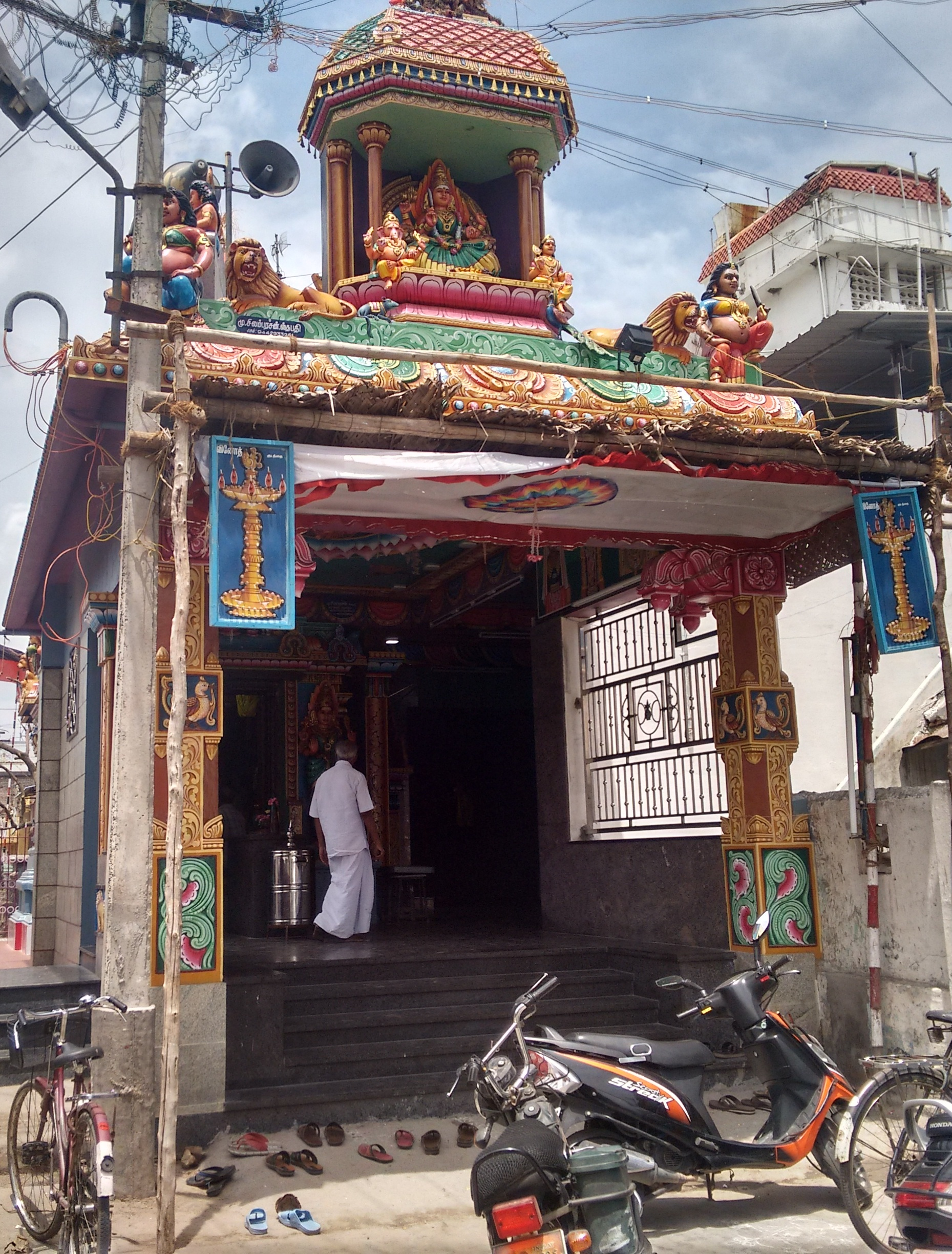 Uppukkara street ariyalur mariamman உப்புக்காரத்தெரு அரியலூர் மாரியம்மன் கோயில்